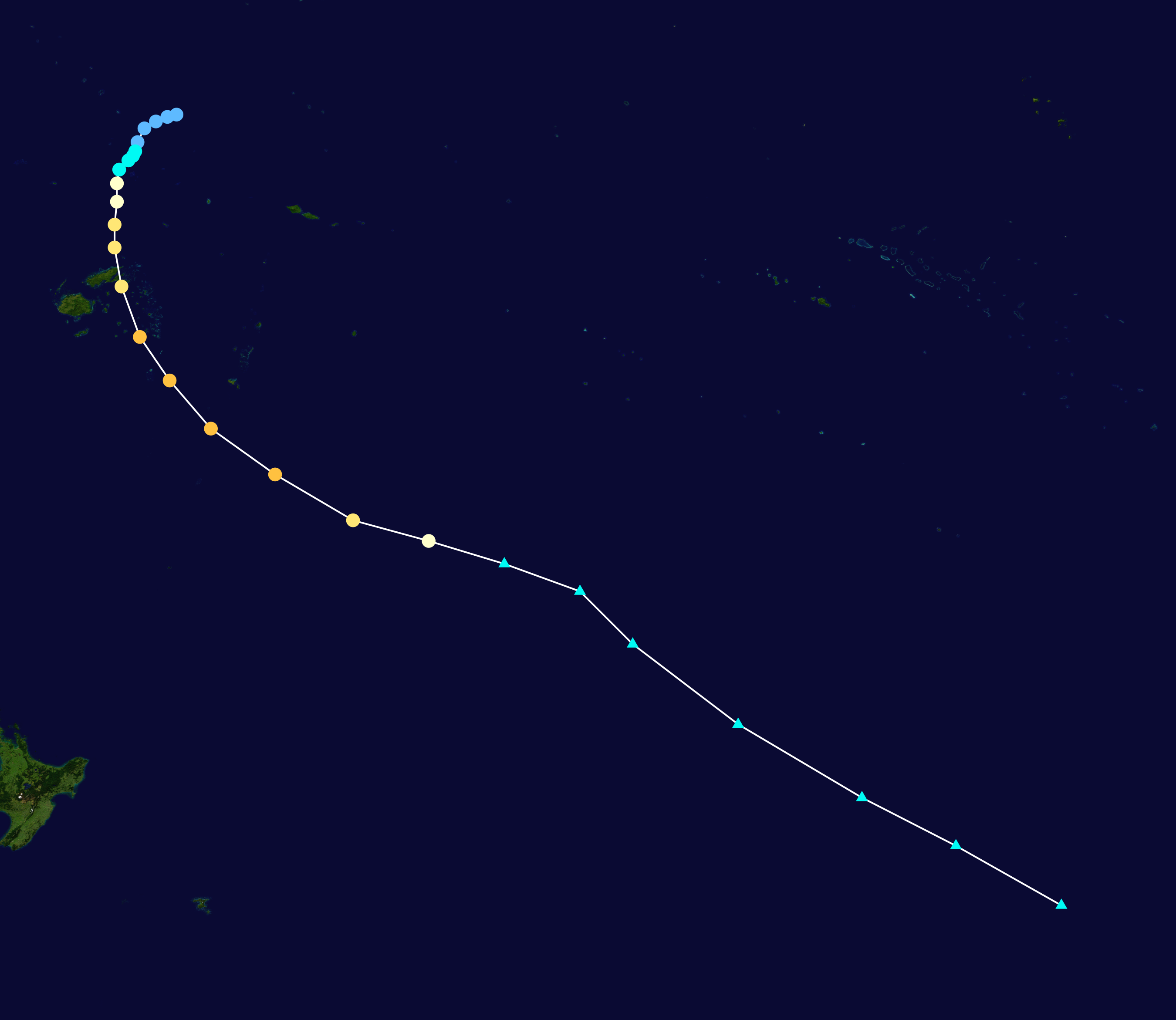 Cyclone Ami (2003) track. Uses the color scheme from the Saffir-Simpson Hurricane Scale.